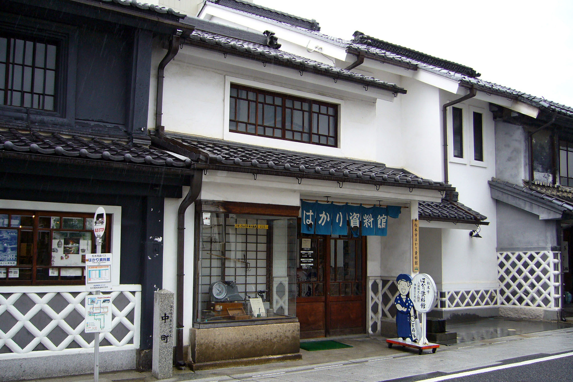 Matsumoto Scale Museum in Matsumoto, Nagano prefecture, Japan